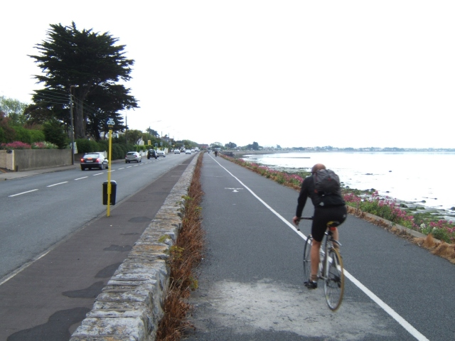 Coastal Cycleway at Kilbarrack, Dublin 5 Probably the best cycle path in the city - it's long, smooth and has great views of Dublin Bay.